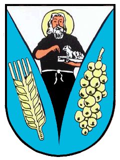 Coat of arms of Reinsdorf, Part of Nebra